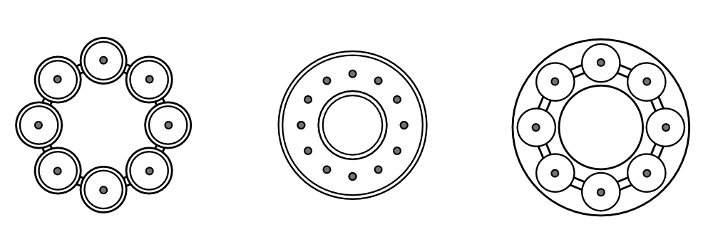 3 types of combustion chamber for Jet engine